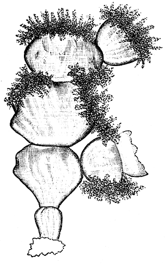 Halimeda tuna